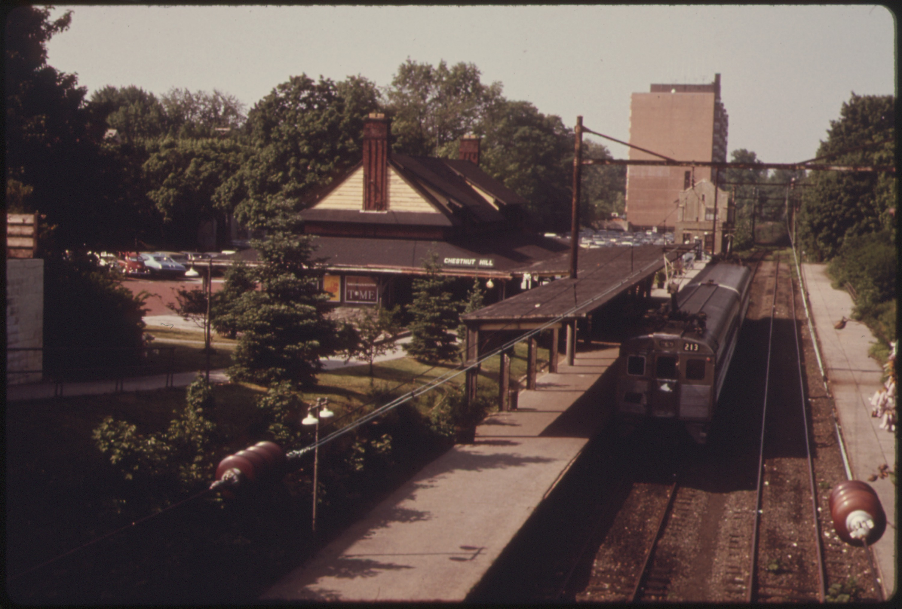 Chestnut Hill West (SEPTA station), Philadelphia, Pennsylvania.